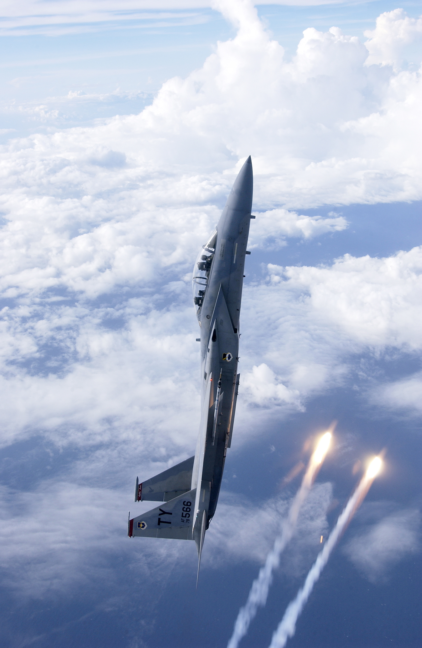 F-15D from the 325th Fighter Wing based at Tyndall Air Force Base, Florida releasing flares. This photo was used for the back cover of the March/April issue of the USAF's Air Education and Training Command's Torch Magazine, a magazine published to highlight safety issues within the USAF.